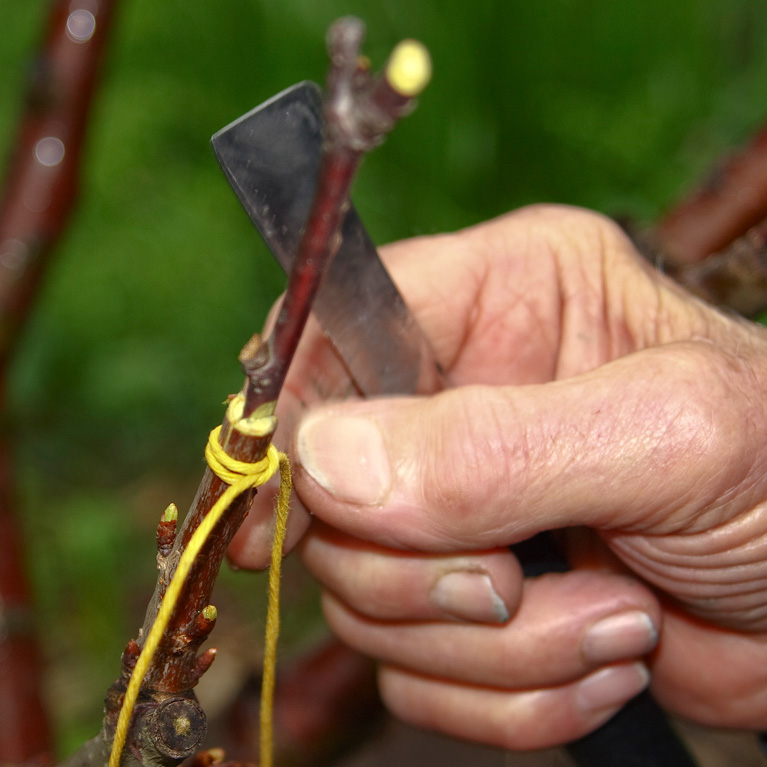 Grafting a Cherry tree Step 3